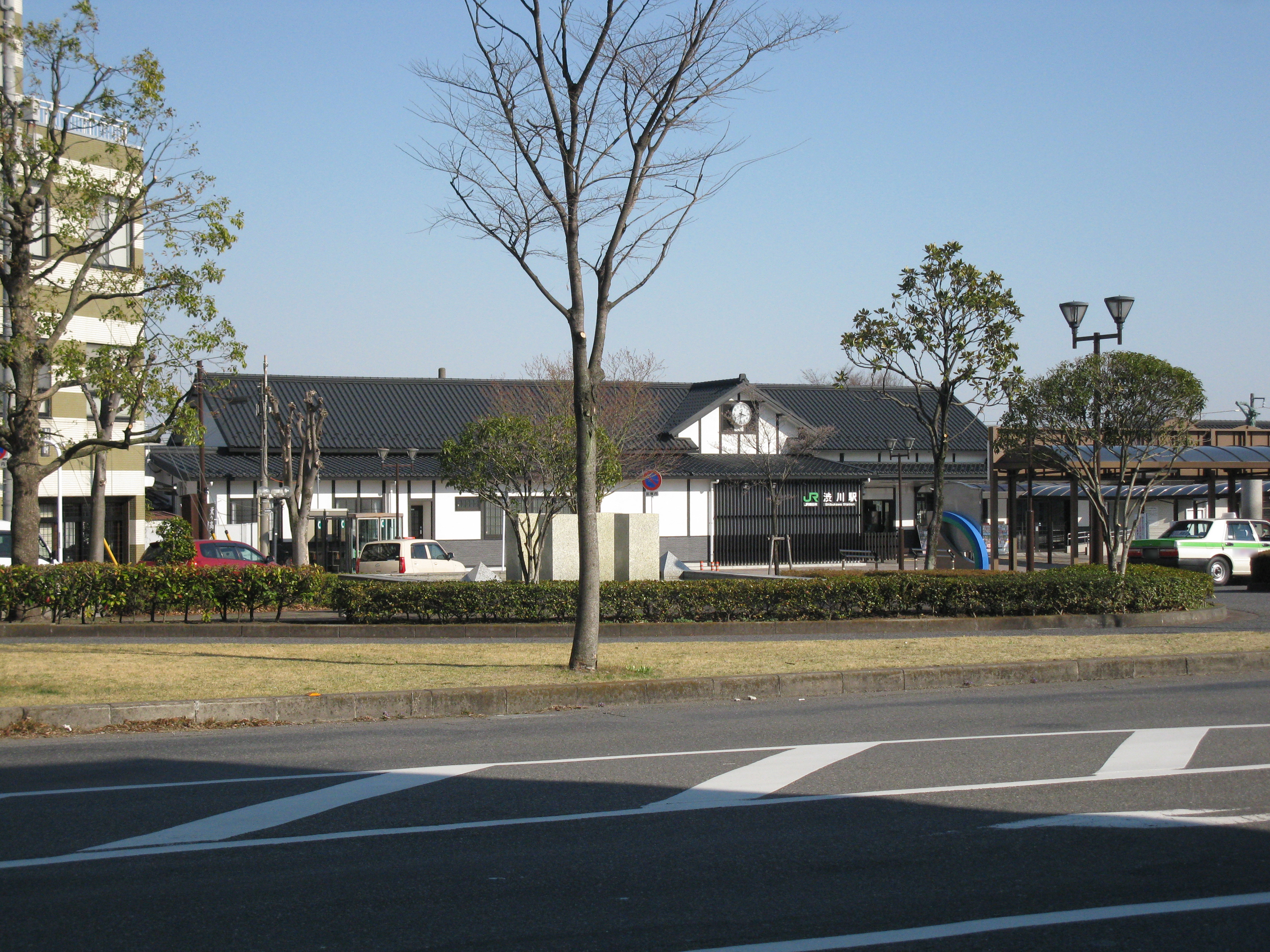 The building of Shibukawa Station(East Japan Railway(JR East) Jōetsu Line, Agatsuma Line)